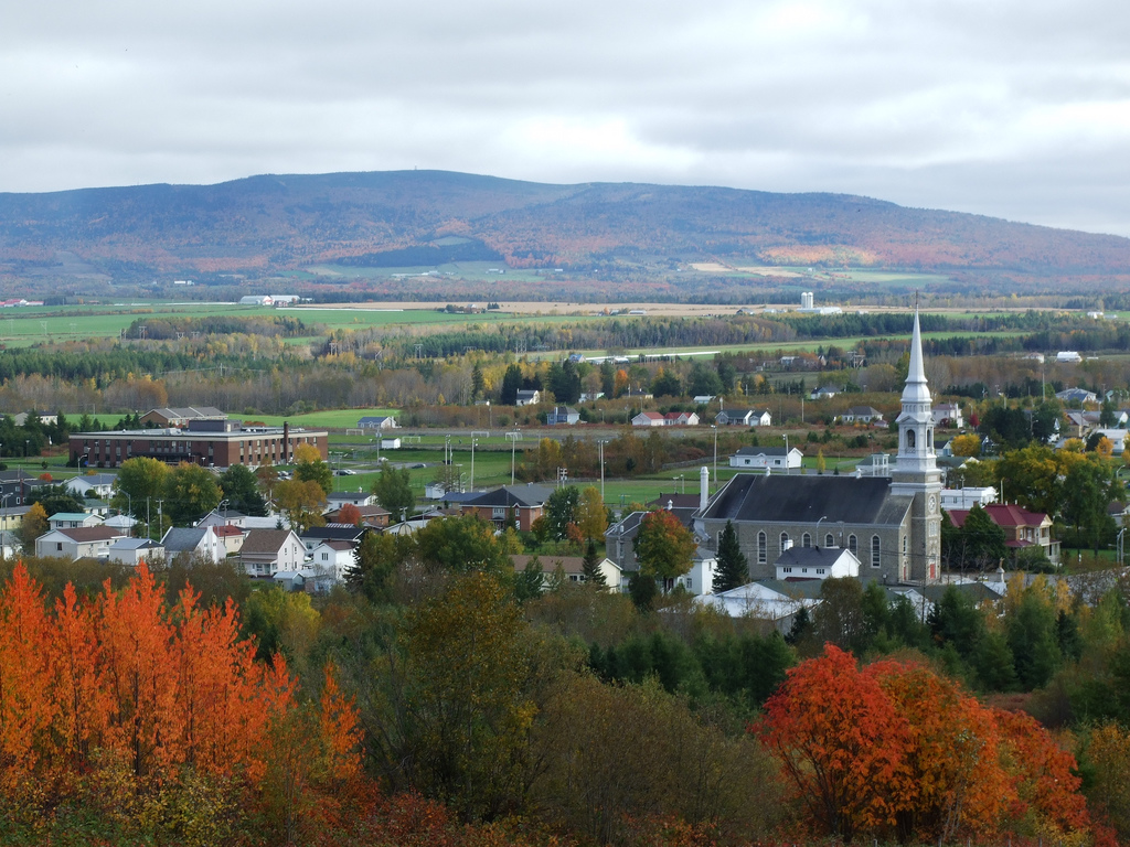 Sayabec